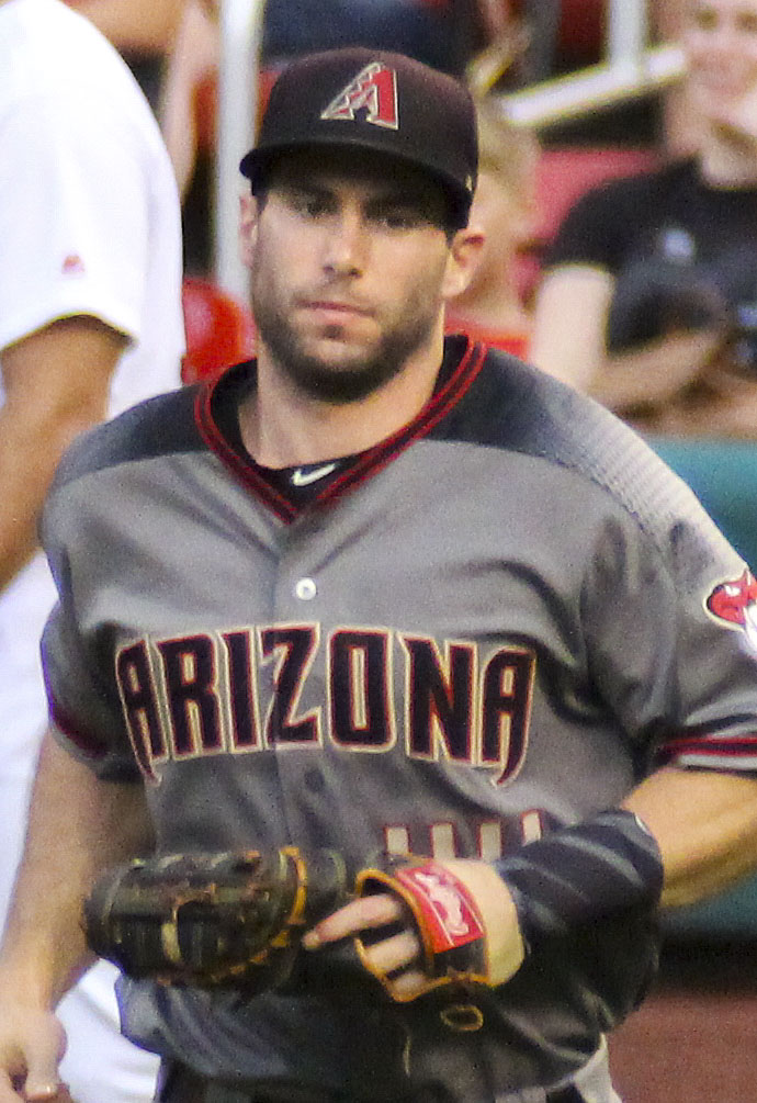 Paul Goldschmidt of the Arizona diamondbacks.